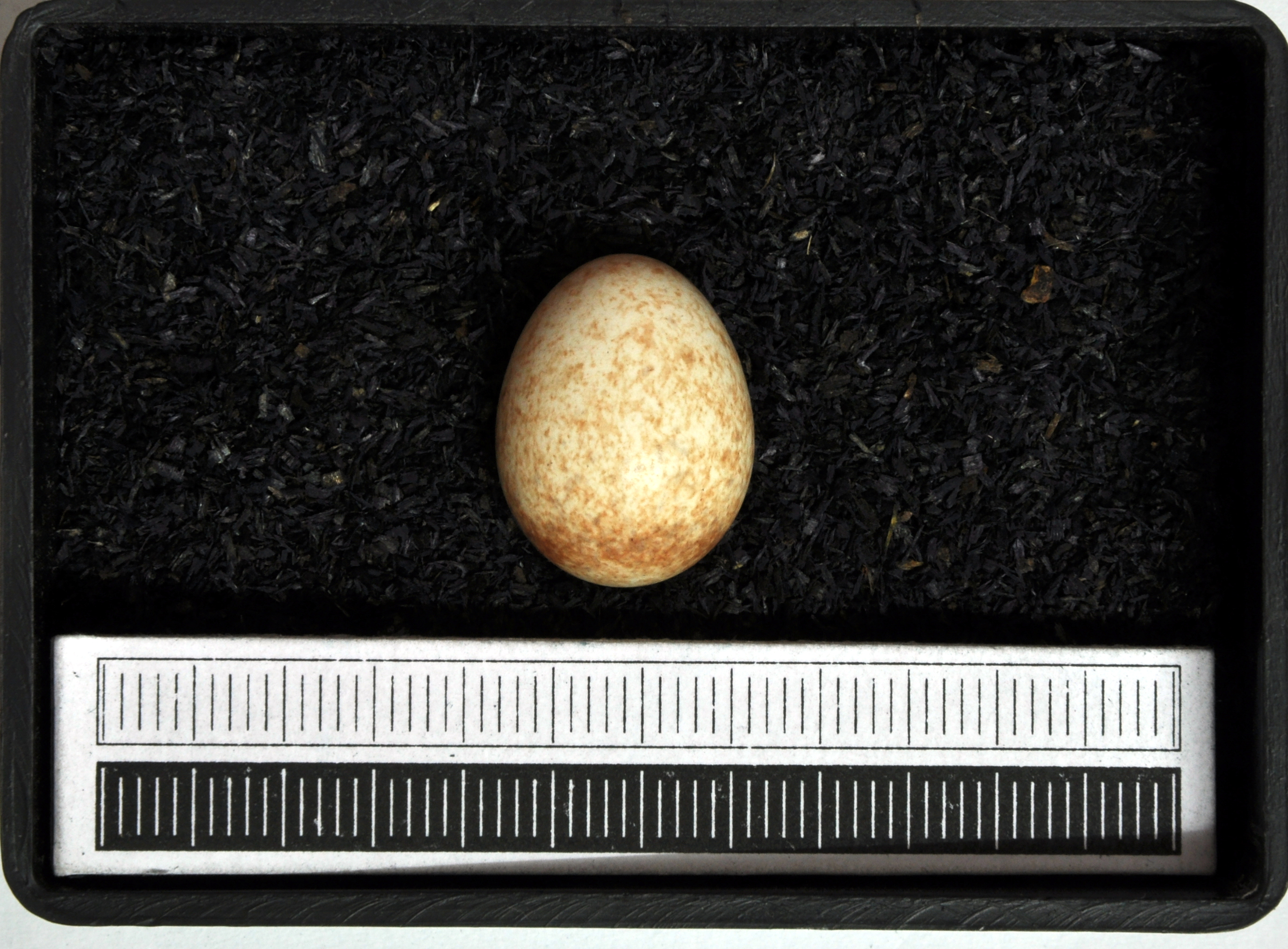 European robin Erithacus rubecula, egg, Coll. Museum Wiesbaden, Origin: Värmlands Län, Sweden, 10.06.1964, leg. W. Abelmann, Scale divisions: 1 and 5 mm